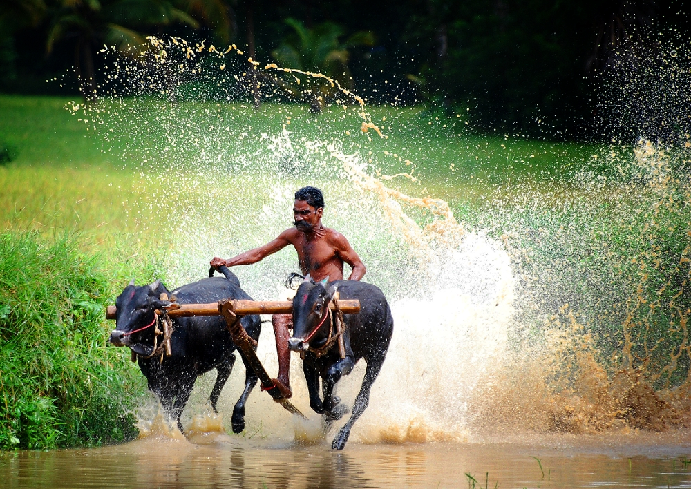 The cattle race conducted at Chithali every year during Onam period is a unique event.[citation needed] There is stiff competition among the owners of the cattle to bring the best pair for the race.